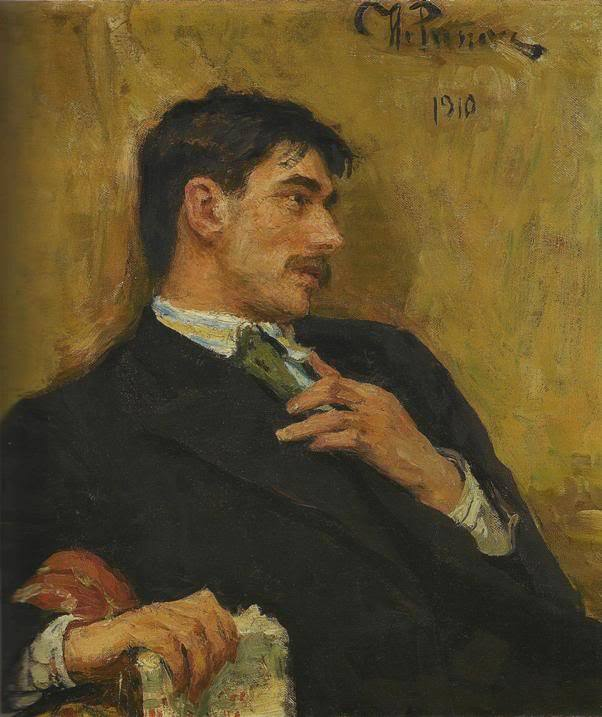 Portrait of poet Korney Ivanovich Chukovsky